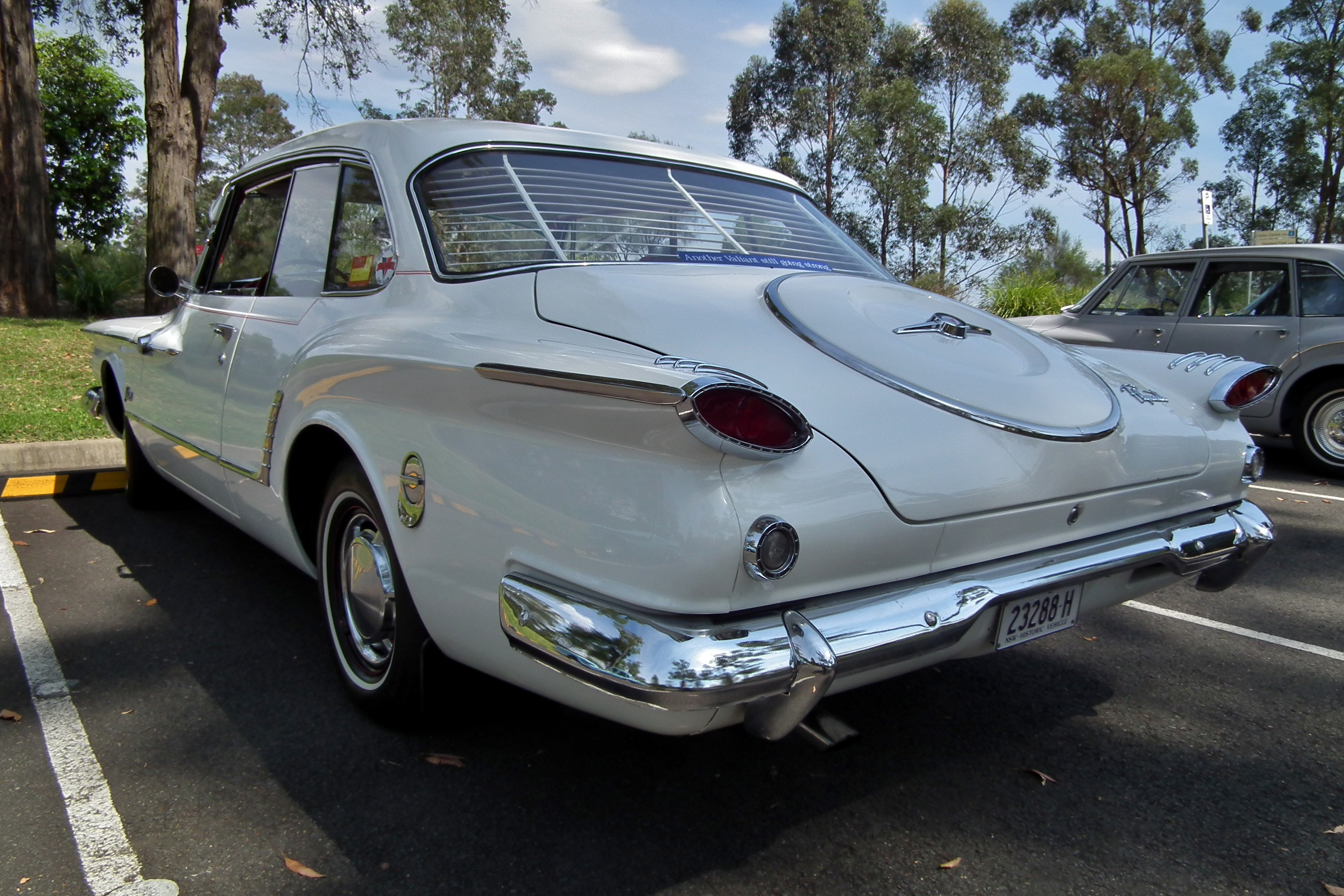 1961 Plymouth Valiant V-200 hardtop. Taken at the R & S Series Valiant Car Club of NSW 2011 Christmas Party, at Warragamba Dam, NSW.